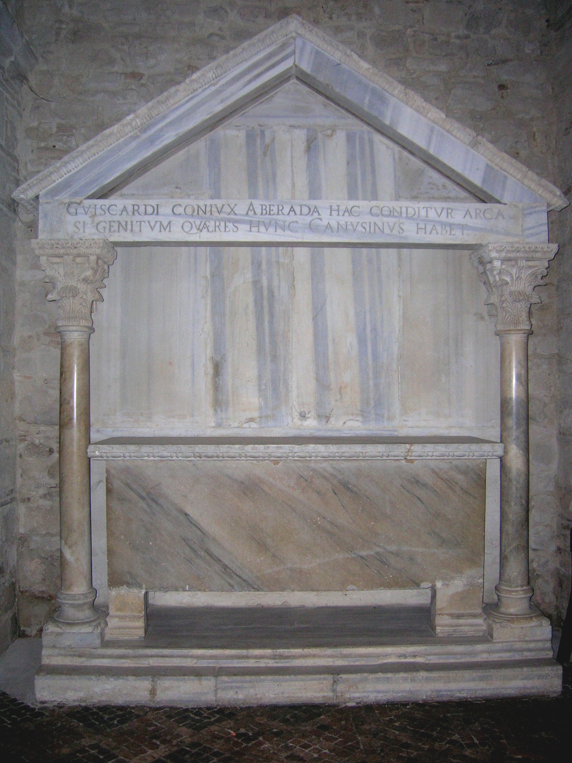 Grave of Aberada/Alberada (Aubrey of Buonalbergo, ~1033-1122, first wife of Robert Guiscard), Venosa, Italy.